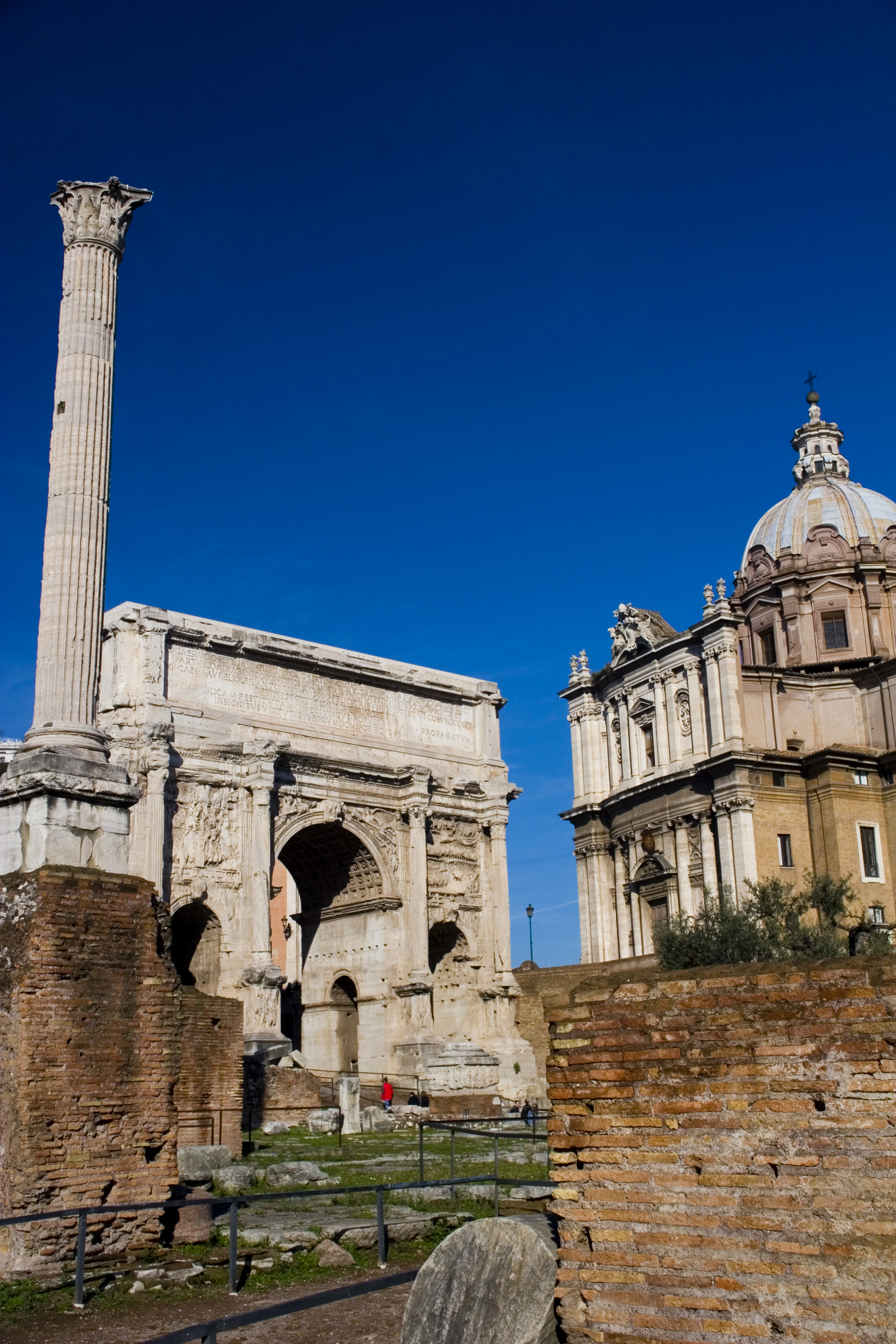 Roman Forum with the Arch of Septimius Severus, the column of Phocas and the San Luca e Santa Martina church